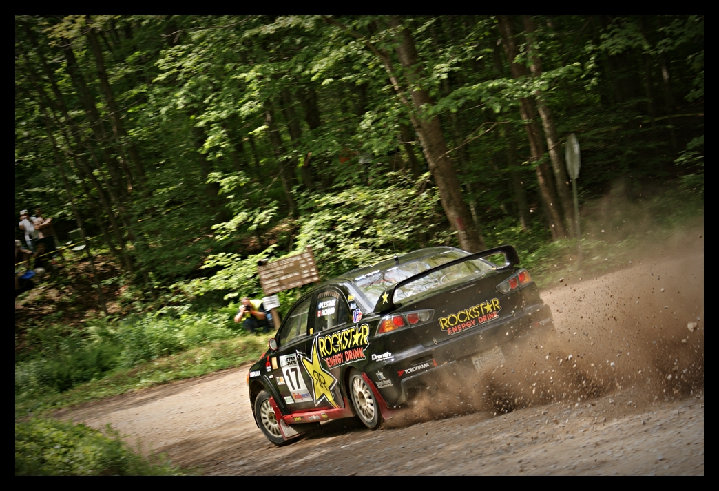 Antoine L'Estage and co-driver Nathalie Richard in their 2009 Mitsubishi Lancer Evo X at the 2010 Susquehannock Trail Performance Rally in Pennsylvania. Round 5 of the 2010 Rally America National Championship.